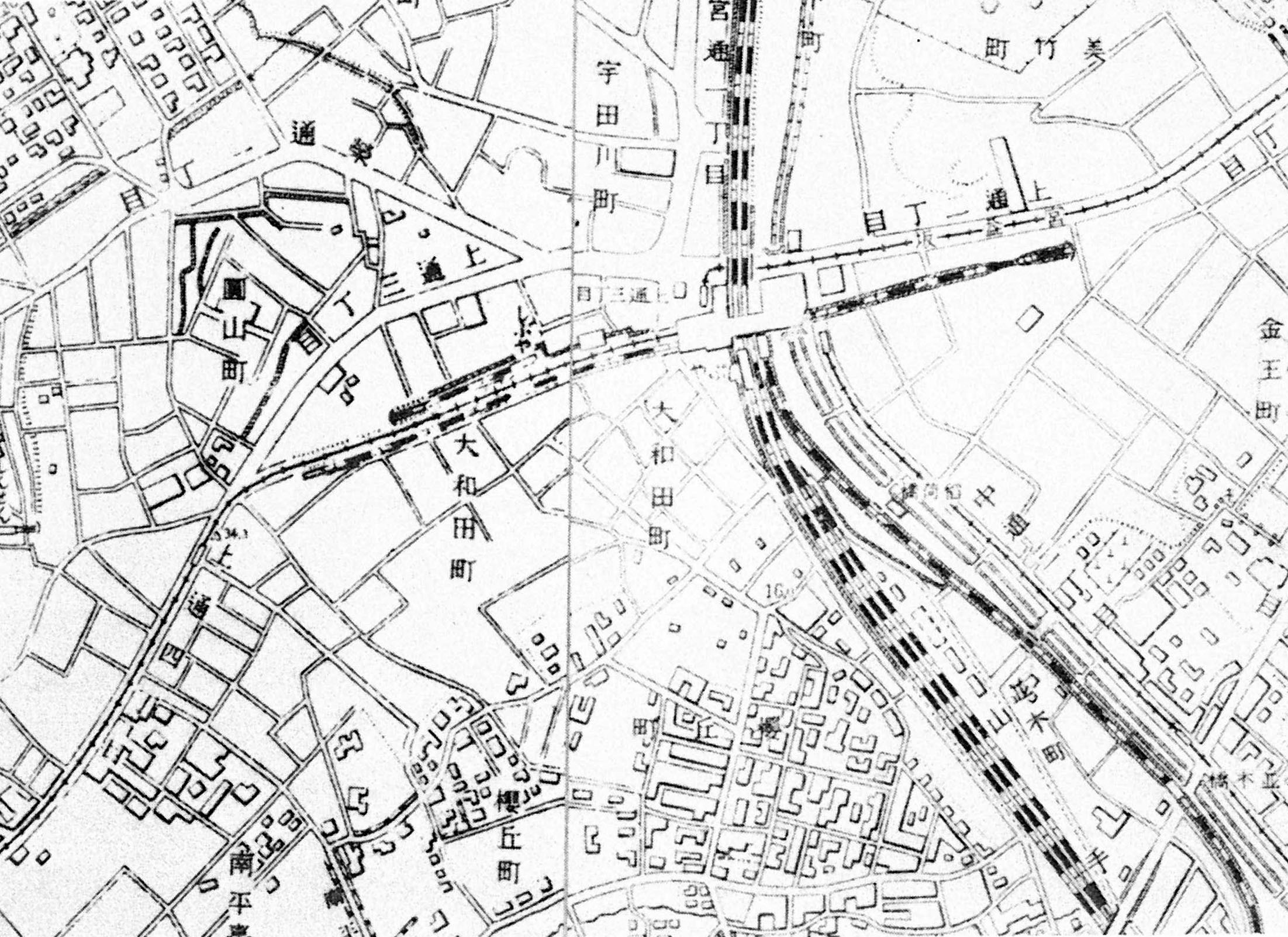 Map of around Shibuya station in 1945